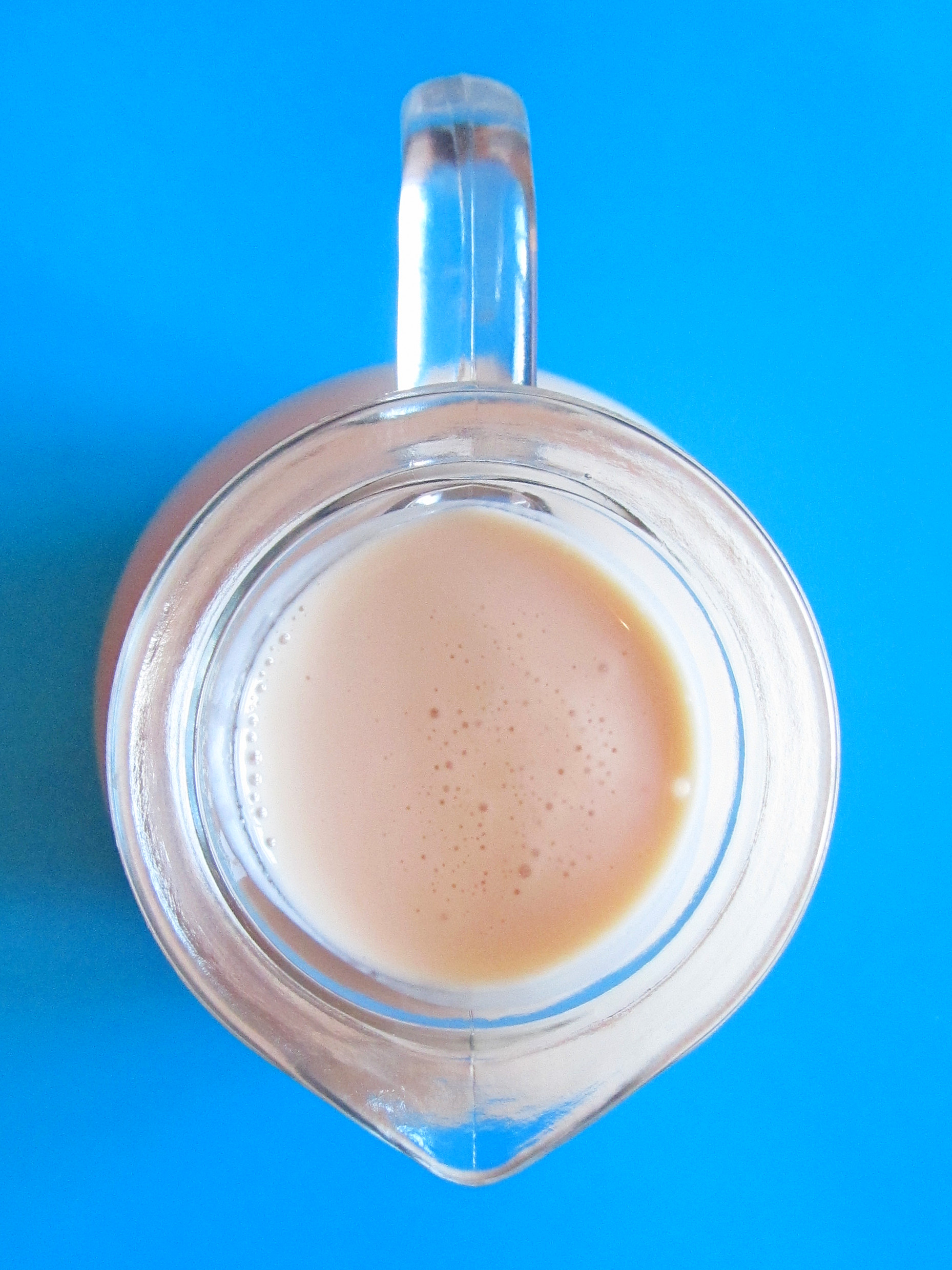 Buttermilk is a dairy drink. Originally, buttermilk was the liquid left behind after churning butter out of cultured cream. This type of buttermilk is now specifically referred to as traditional buttermilk and the fermented dairy product is known as cultured buttermilk.